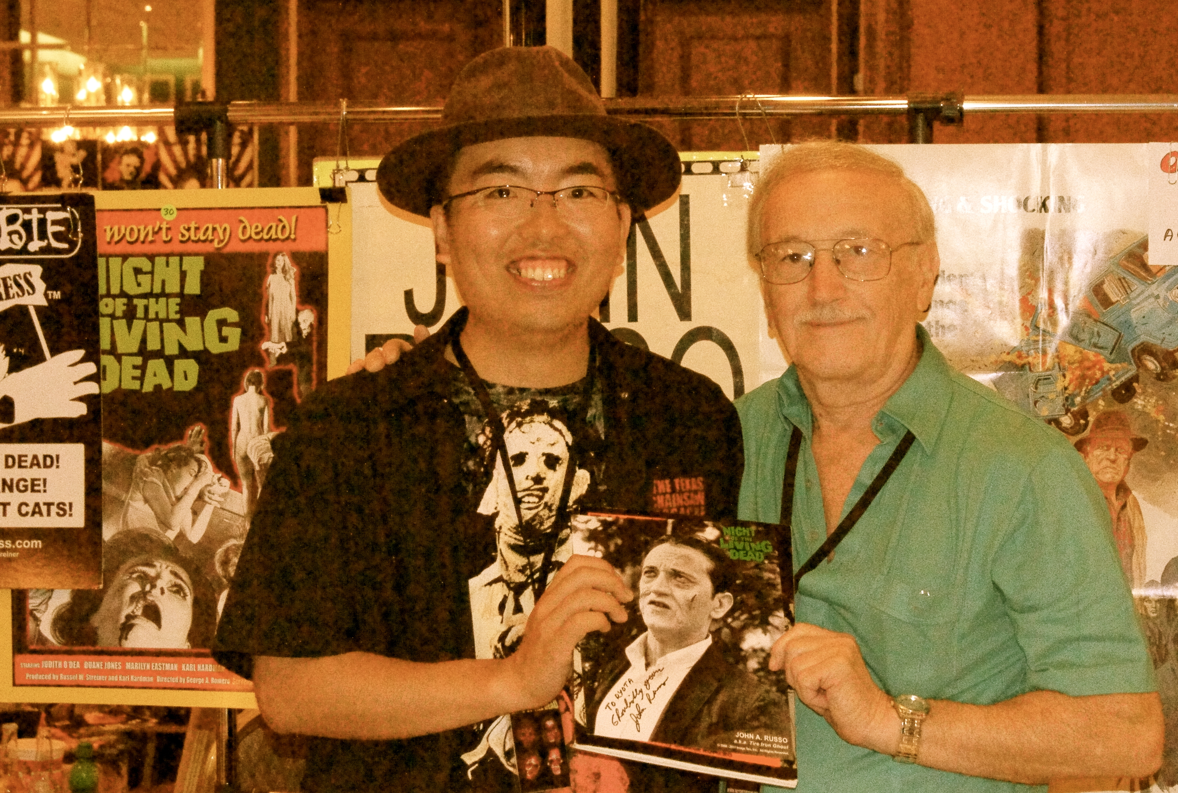 John A. Russo(right) who is the co-creator of the 1968 classical zombie film Night of the Living Dead and the Japanese filmmaker Ryota Nakanishi who is the film editor of the 2013 bestseller Japanese film Rakugo-Eiga.